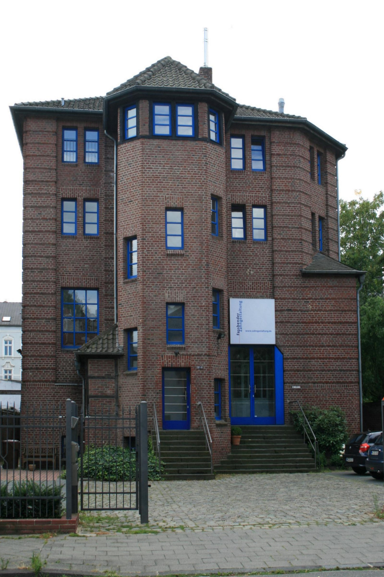 Cultural heritage monument No. K 016 in Mönchengladbach